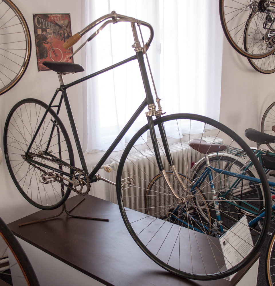 Aeolus bicycle, made by Bown Manufacturing Company, Birmingham, 1892-95label QS:Len,"Aeolus bicycle, made by Bown Manufacturing Company, Birmingham, 1892-95" label QS:Lhu,"Aeolus márkájú kerékpár, Bown Manufacturing Company, Birmingham, 1892-95"